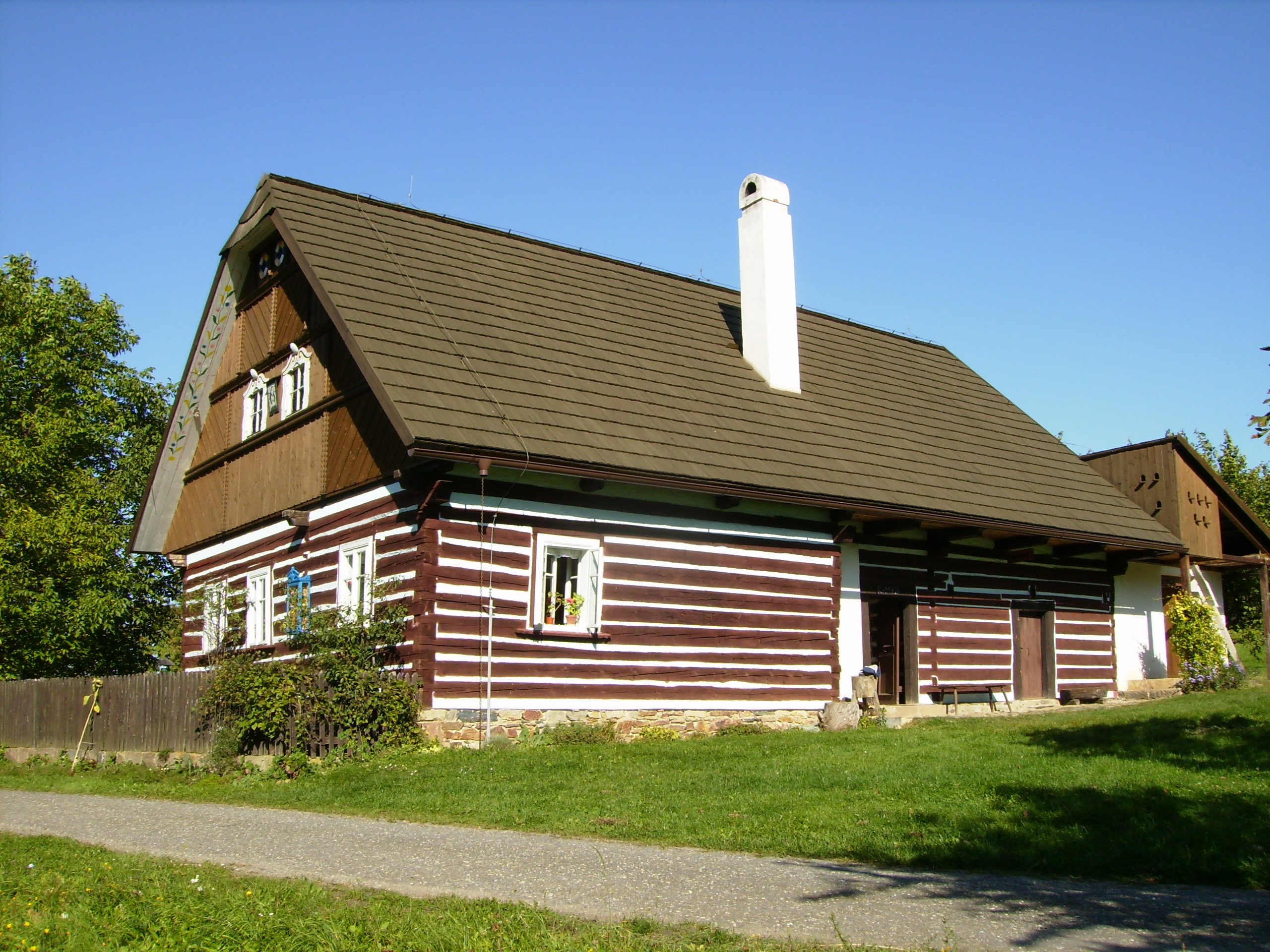 Open-air museum in Kouřim, Czech Republic.